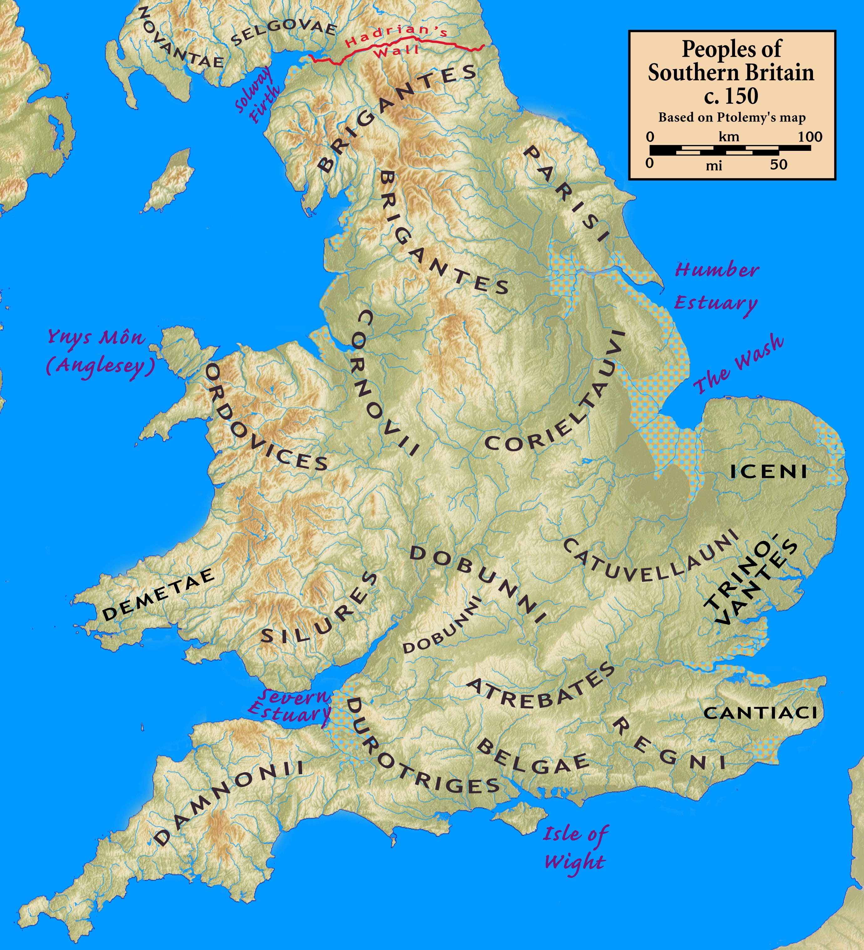 Peoples of Southern Britain according to Ptolemy's map